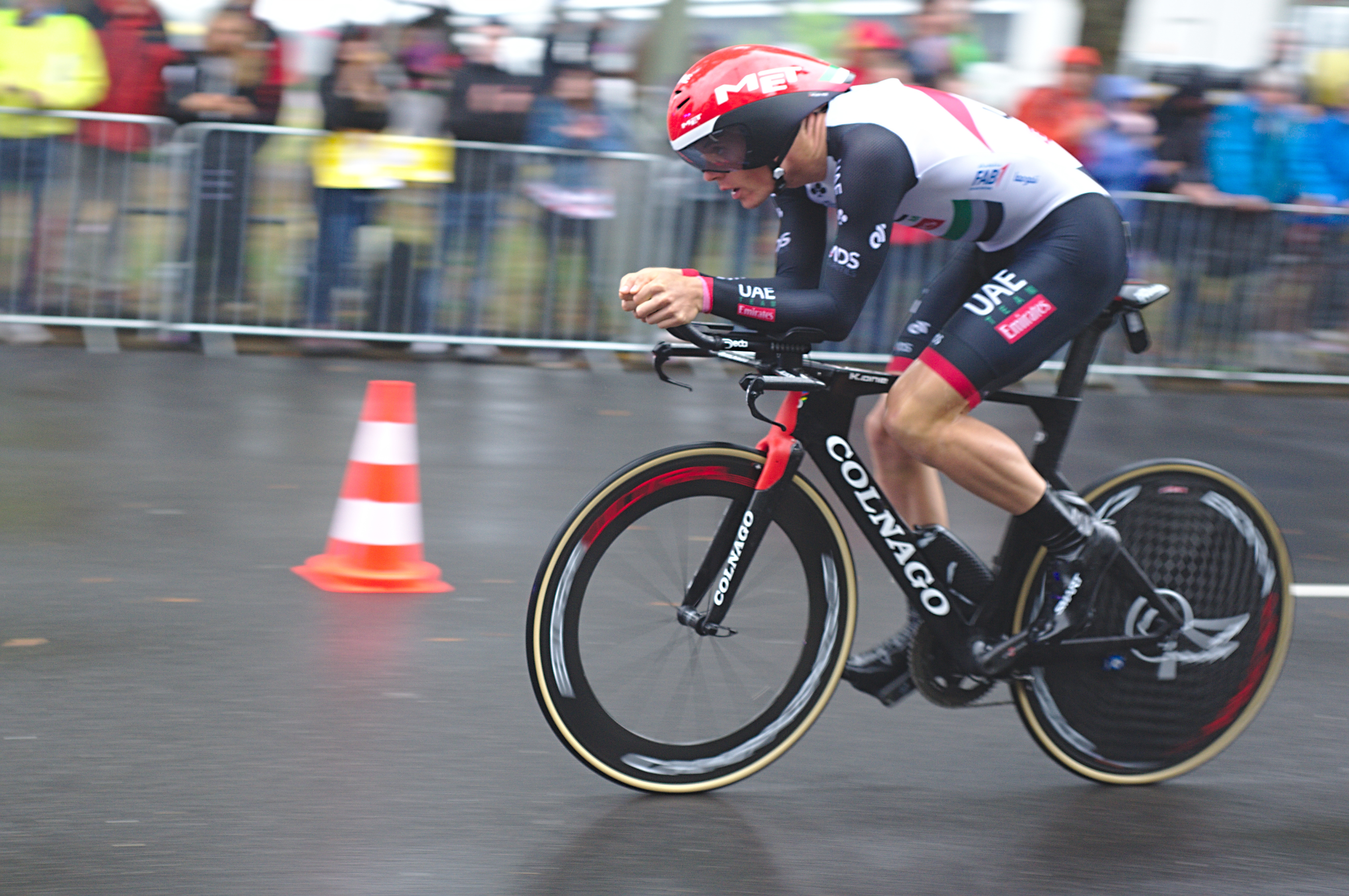 Ben Swift (UAE Team Emriates)